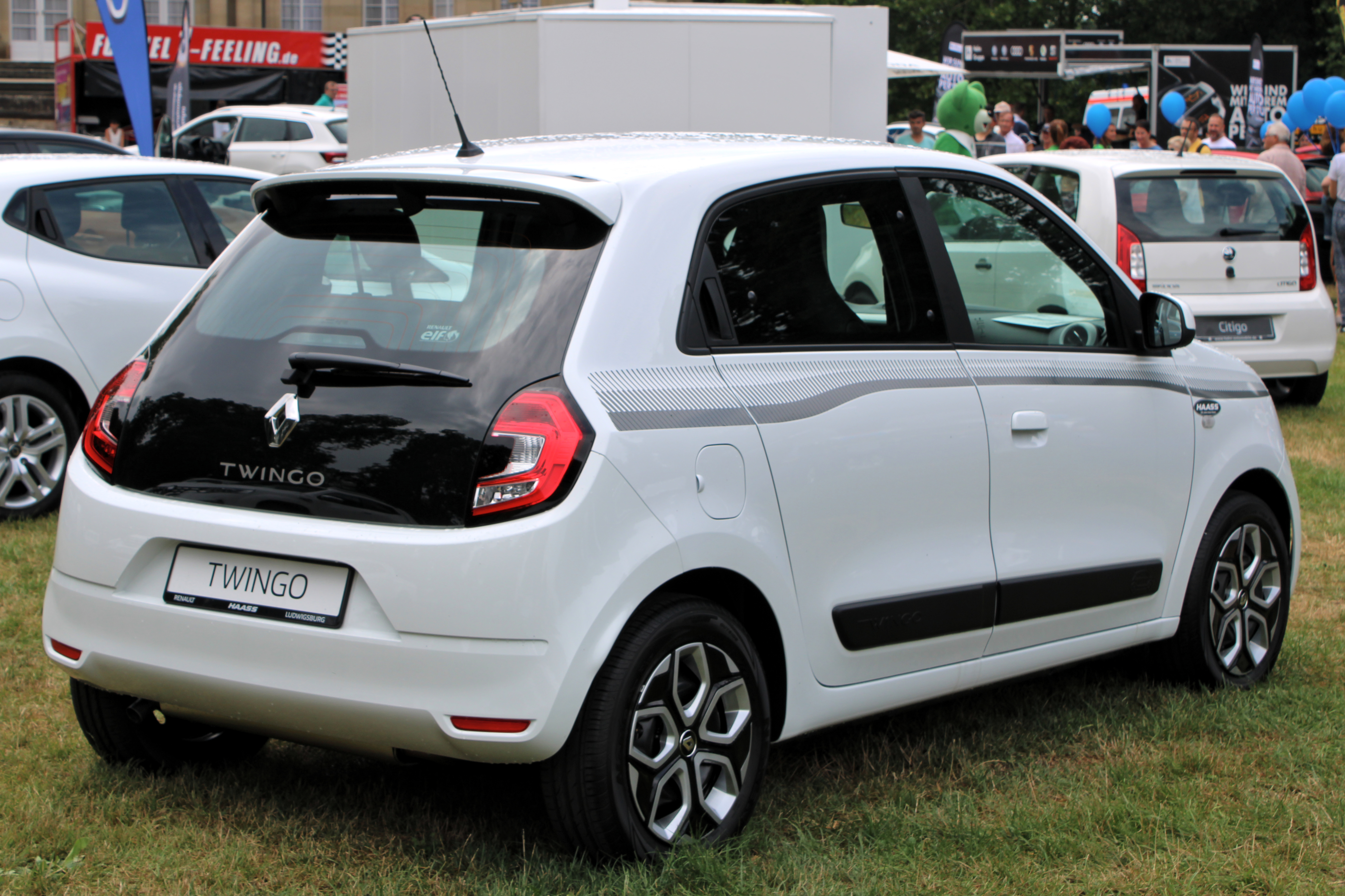 Renault Twingo at Schloss Monrepos 2019